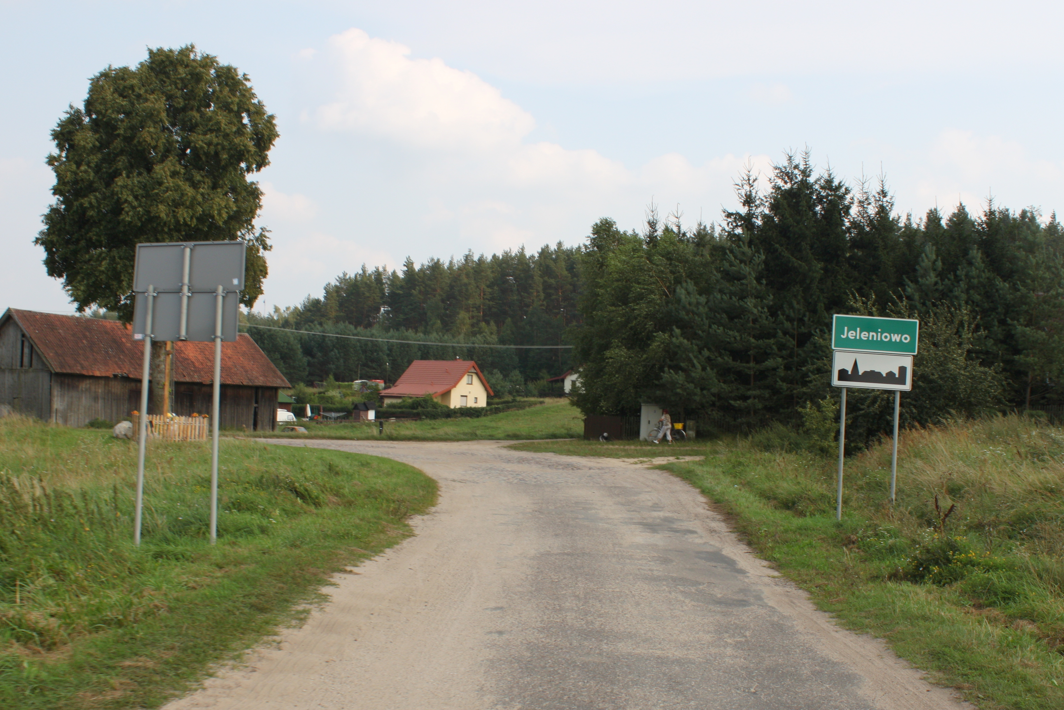 Road in Jeleniowo.